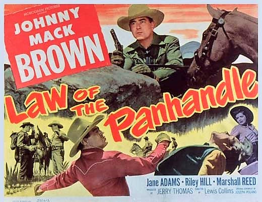 Poster del film Law of the Panhandle